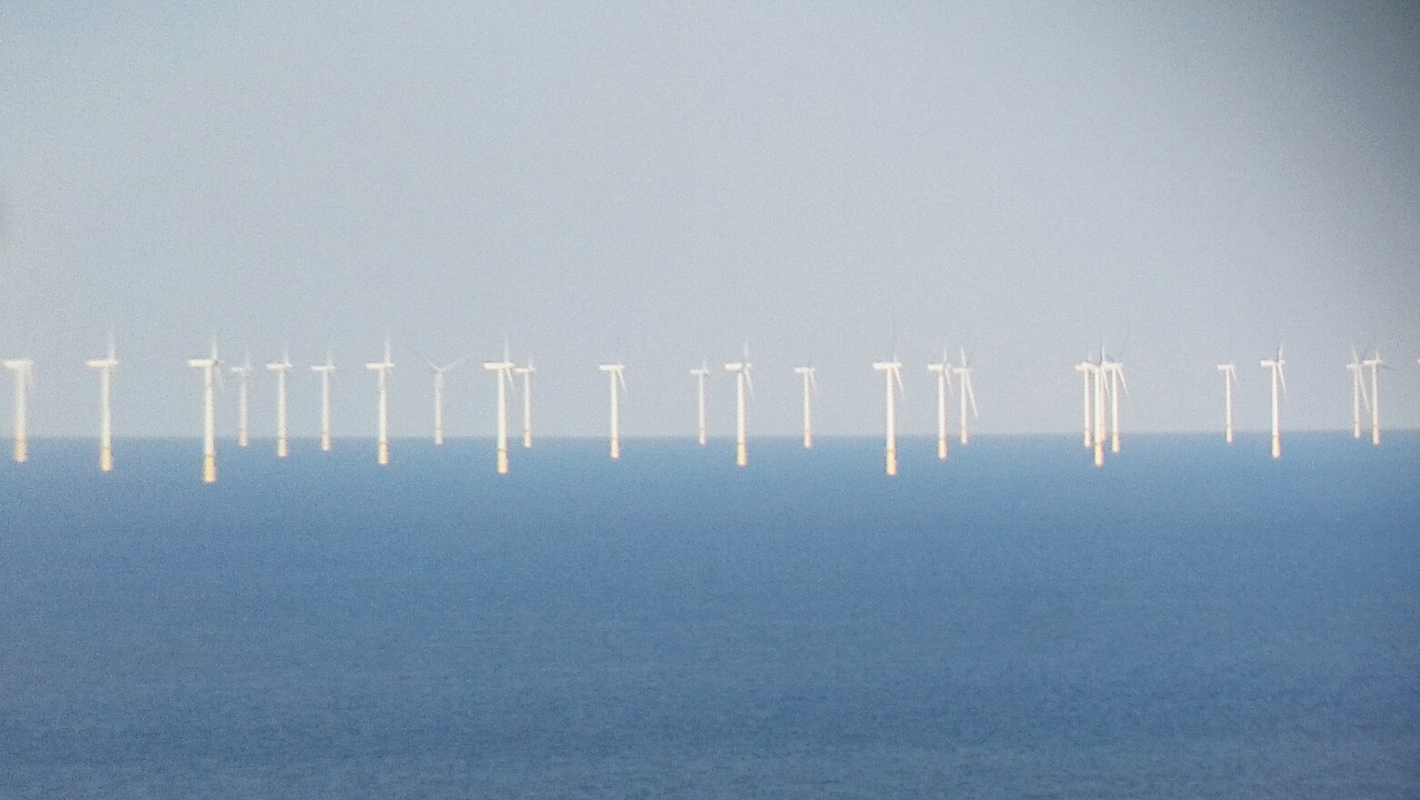 Gwynt y Môr wind farm viewed from Great Orme.